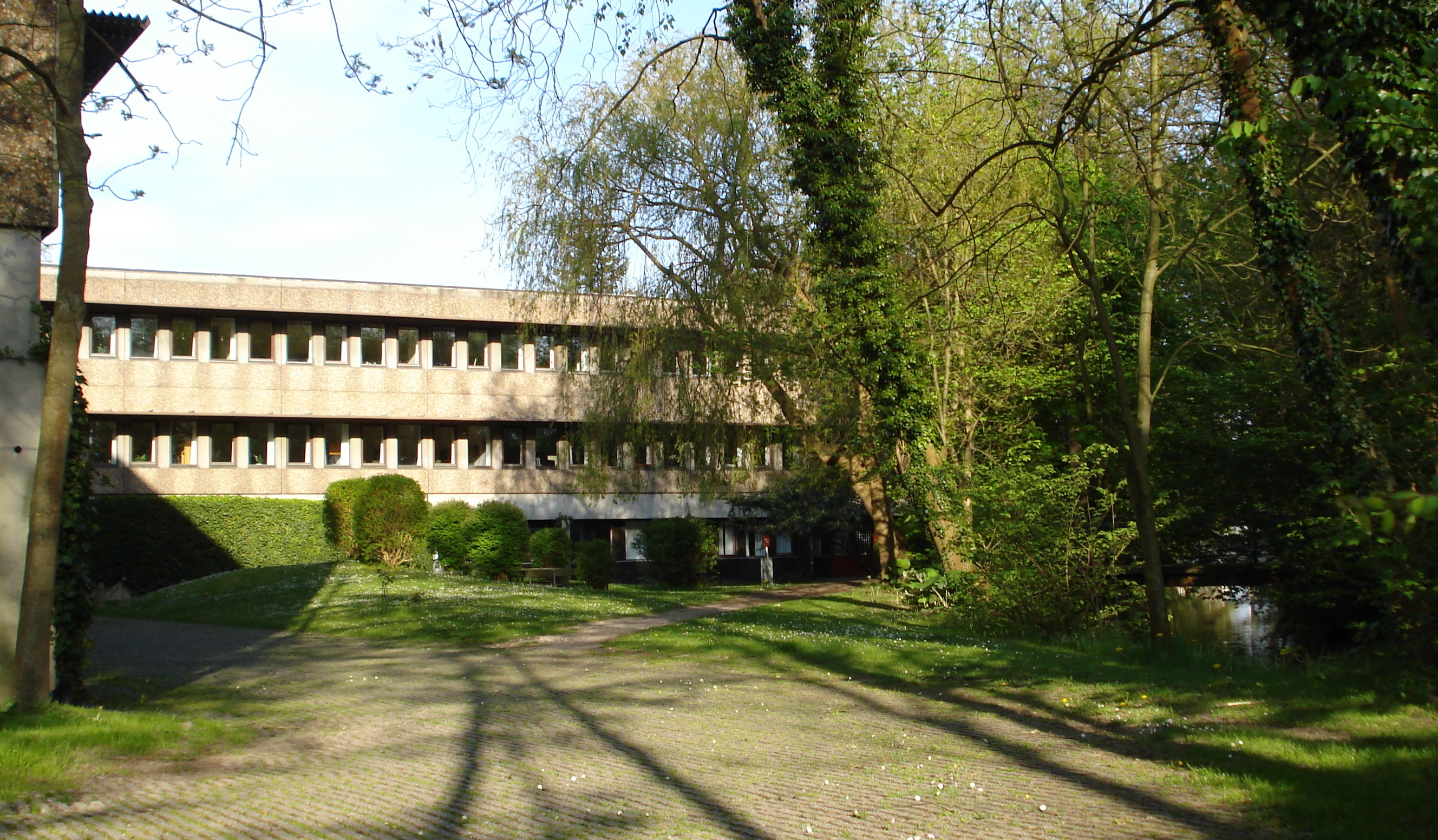 Office building on the street Lyngby Hovedgade, Lyngby, Denmark with the river Mølleå